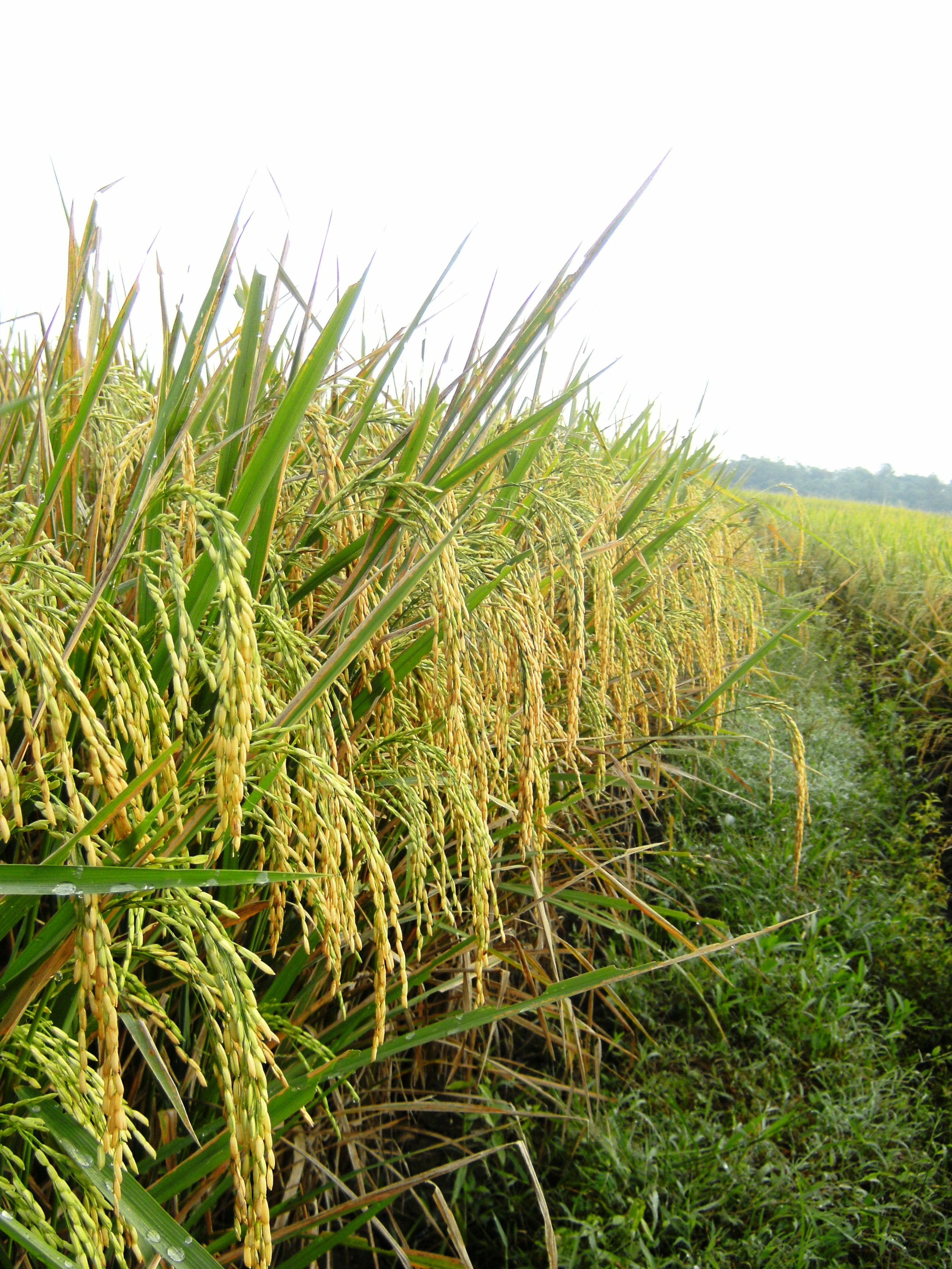 Paddy in Bogor, West Java, Indonesia, nearly harvest